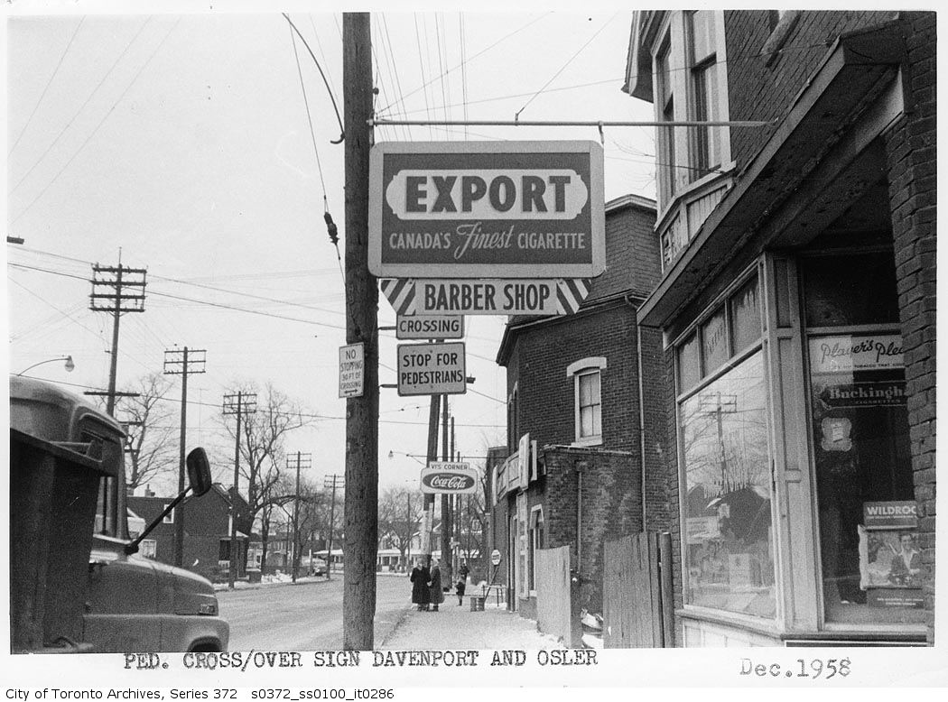 Pedestrian crossing sign at Davenport Road and Osler Street This image is available from the City of Toronto Archives, listed under the archival citation Series 372, Subseries 100, Item 286. This tag does not indicate the copyright status of the attached work. A normal copyright tag is still required. See Commons:Licensing for more information.